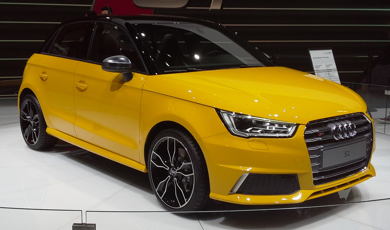 Audi S1 photographed at the 2014 Geneva Motor Show, Geneva, Switzerland.